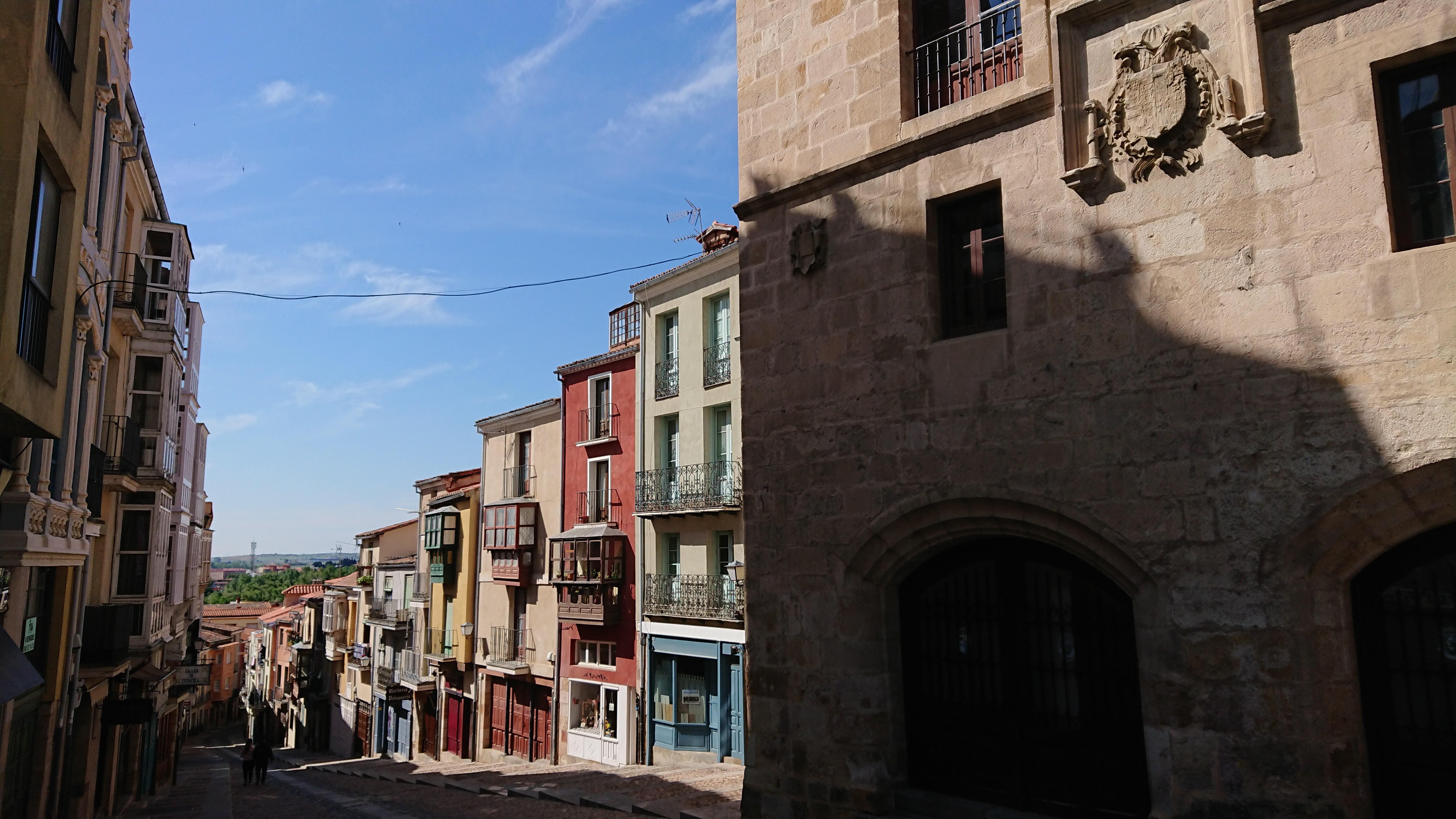 Balborraz street, Zamora (Spain)